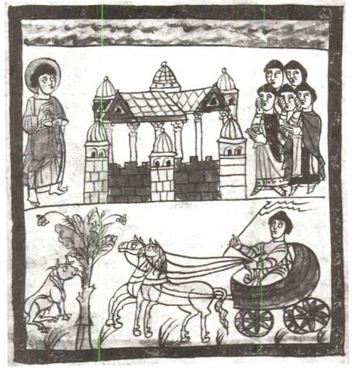 Earliest picture of a modern harness